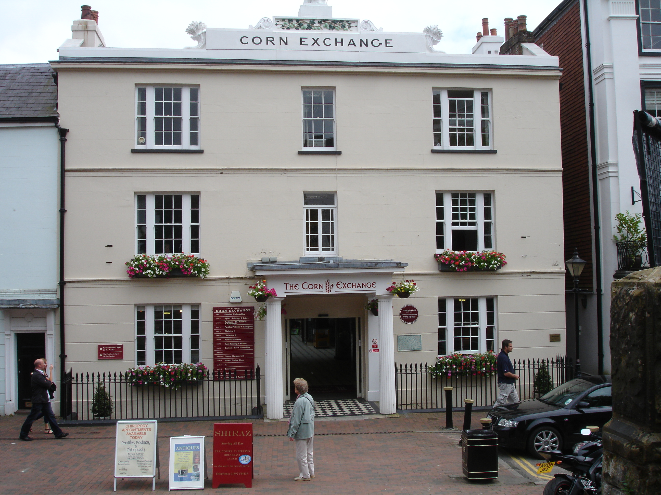 Corn Exchange